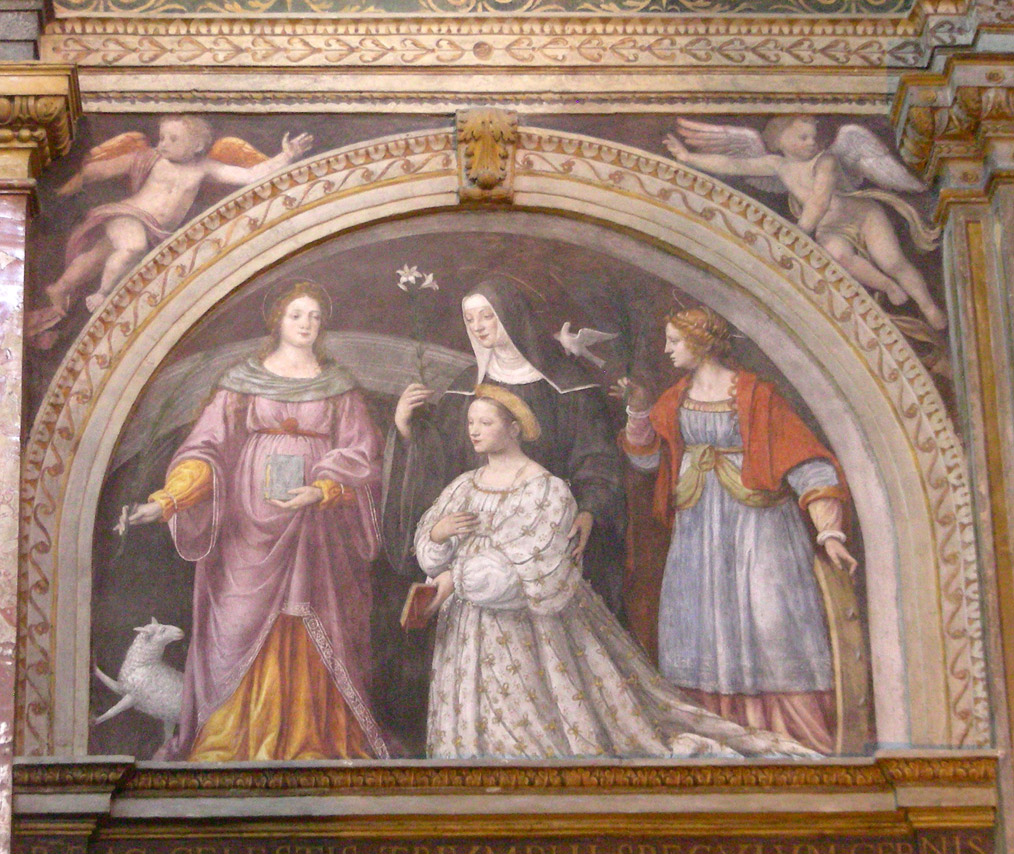 taly, Milan, church of Saint Maurice al Monastero Maggiore, inside, public part, divisory wall, portrait of Ippolita Sforza, wife of Alessandro Bentivoglio vice duca of Francesco II Sforza, by Bernardino Luini